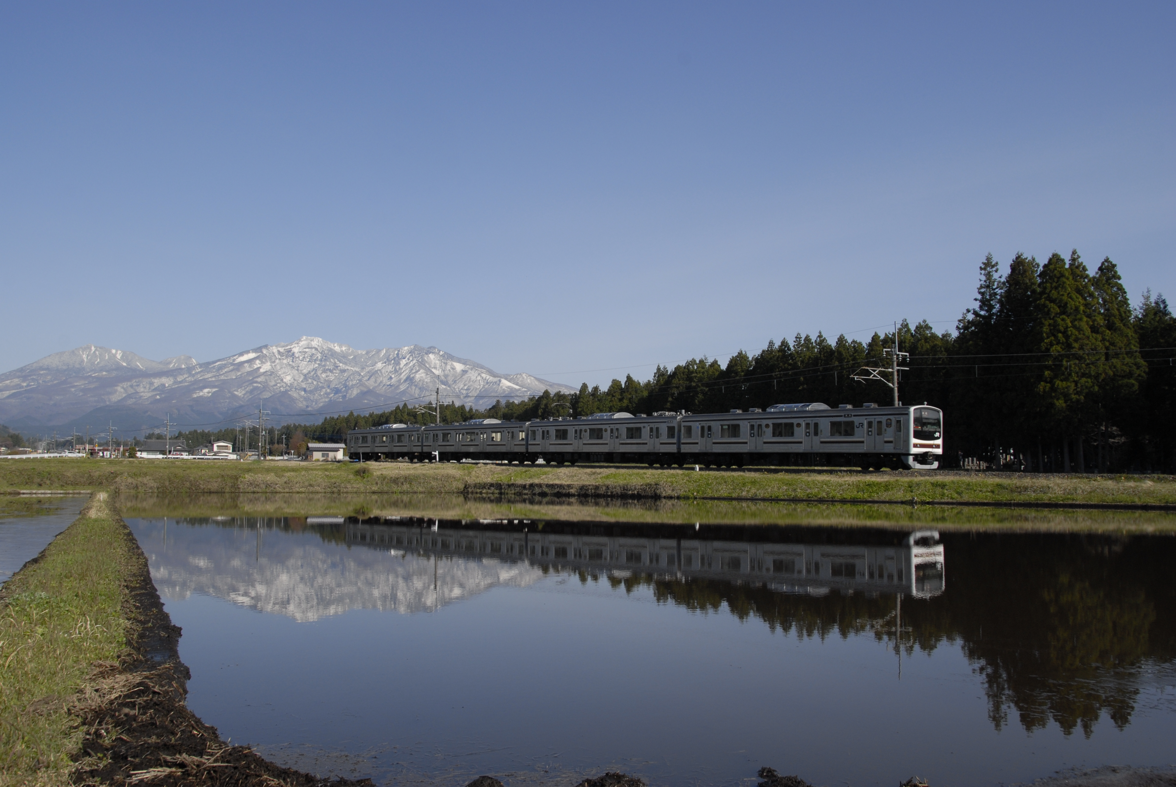 A JR East 205-600 series 4-car EMU on the Nikko Line